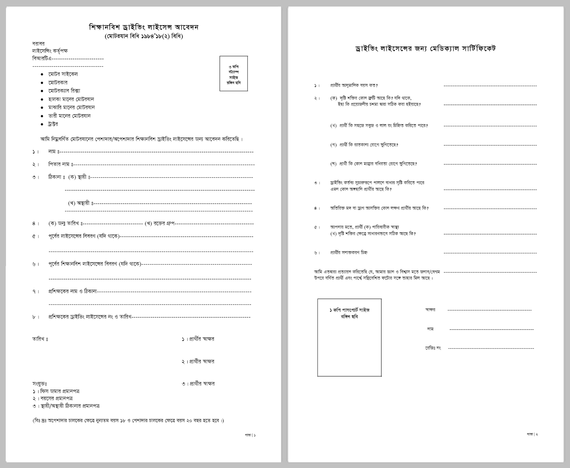 Learner's License Application Form.